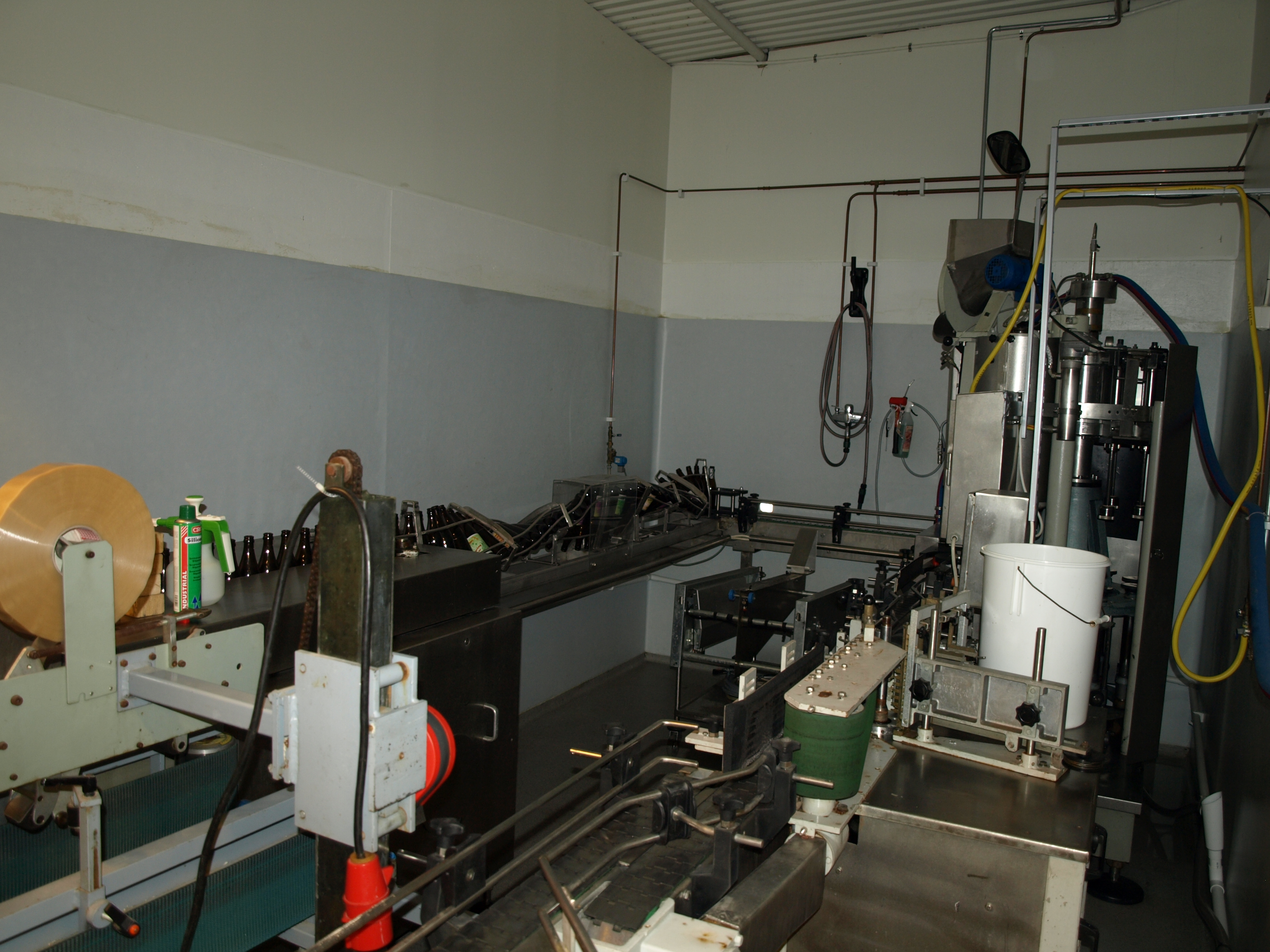 Inside Dugges Ale- och Porterbryggeri, a microbrewery in Mölndal, Gothenburg, Sweden